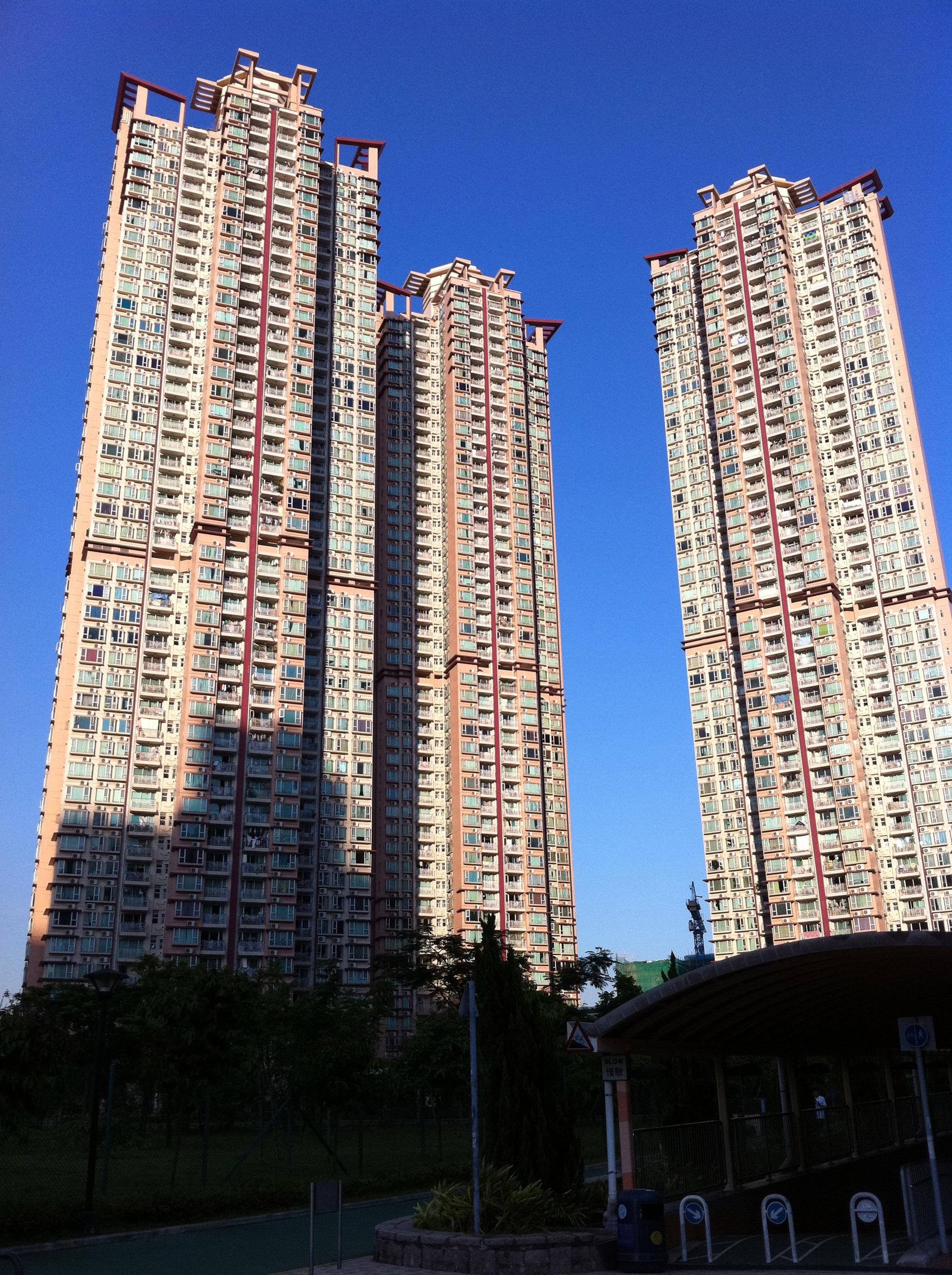 Vianni Cove